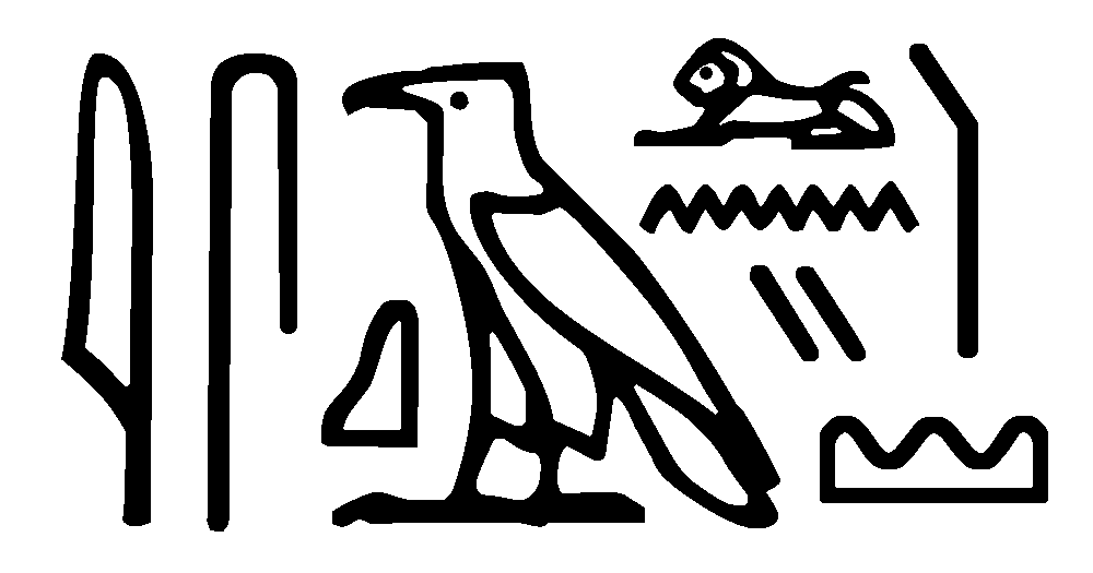 Merenptah Stele (Israel Stele): the name Ashqelon written in hieroglyphs as it appears on the stele (mirror view) in line 27 (context: Ashkelon is conquered, Gezer seized). Transliteration: j-s-q-A-r(w)-n-y (reed-folded cloth-slope of hill-Egyptian vulture-lion-ripple of water-two strokes) plus determinatives: enemy-foreign land (throwing stick-three hills). Egyptians did not differentiate 'R' from 'L'.Note, in WikiHeiro the text should be written as such: i-s-q-A-y-T14:N25